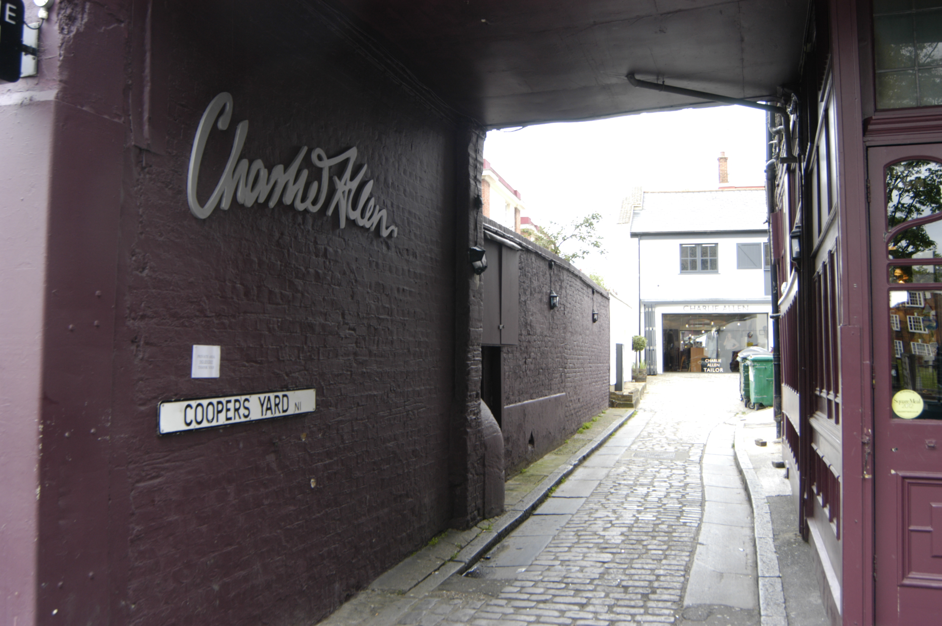 Photograph of Charlie Allen's yard in London by me Rodolph de Salis.Rodolph (talk) 11:13, 22 May 2013 (UTC)